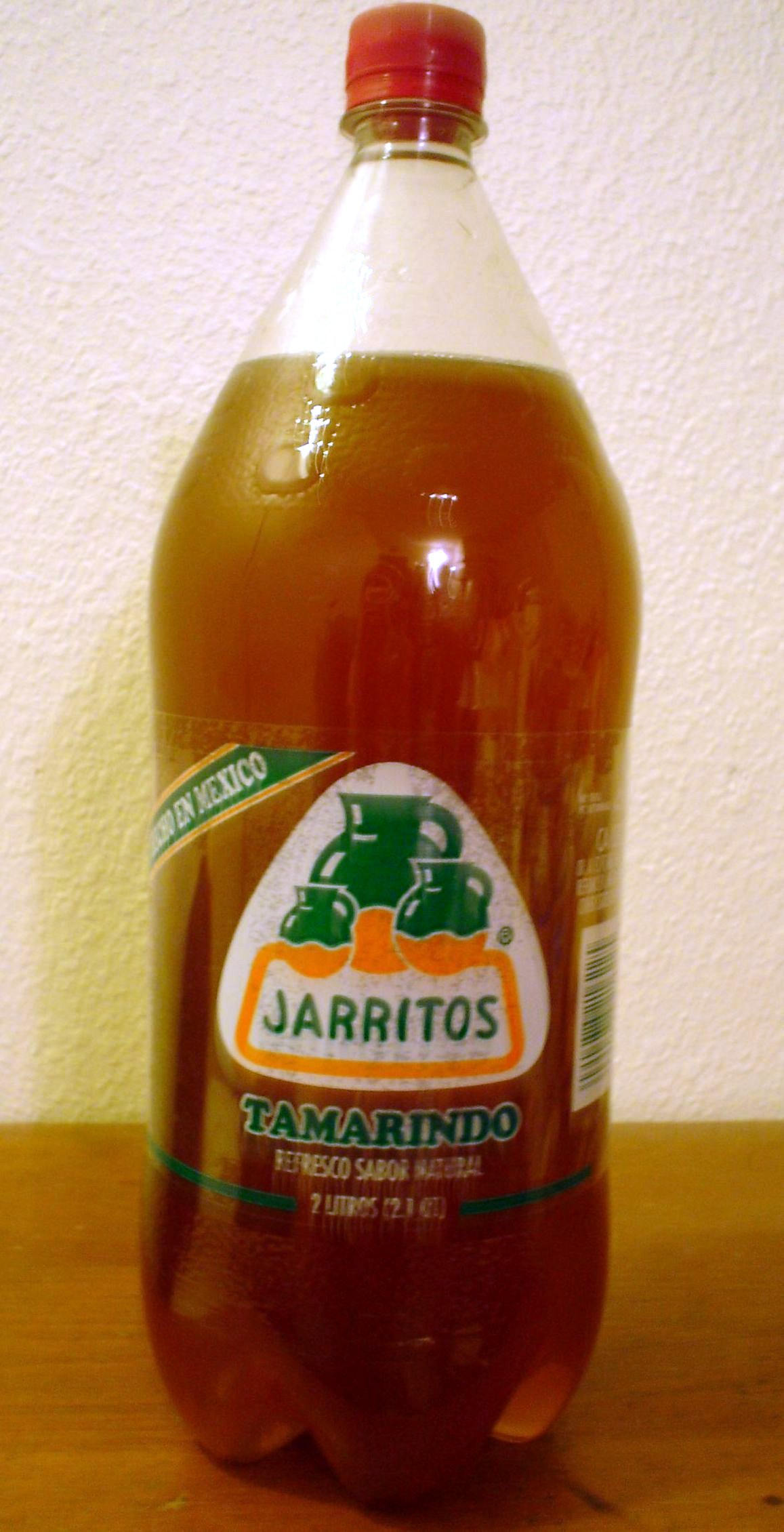 Jarritos soda, tamarind flavor. Photo taken 25 October 2005.